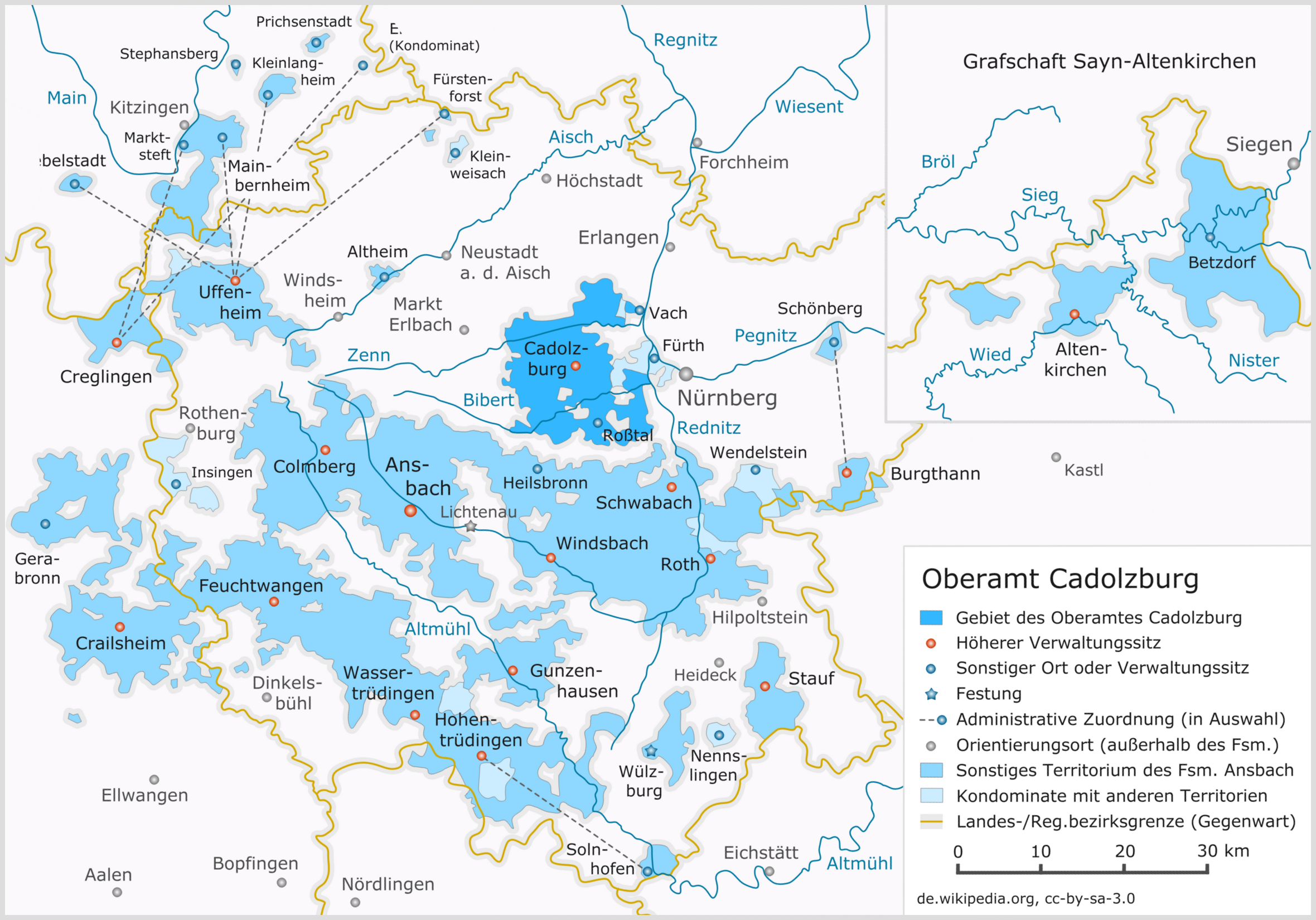 Map of the Oberamt Cadolzburg